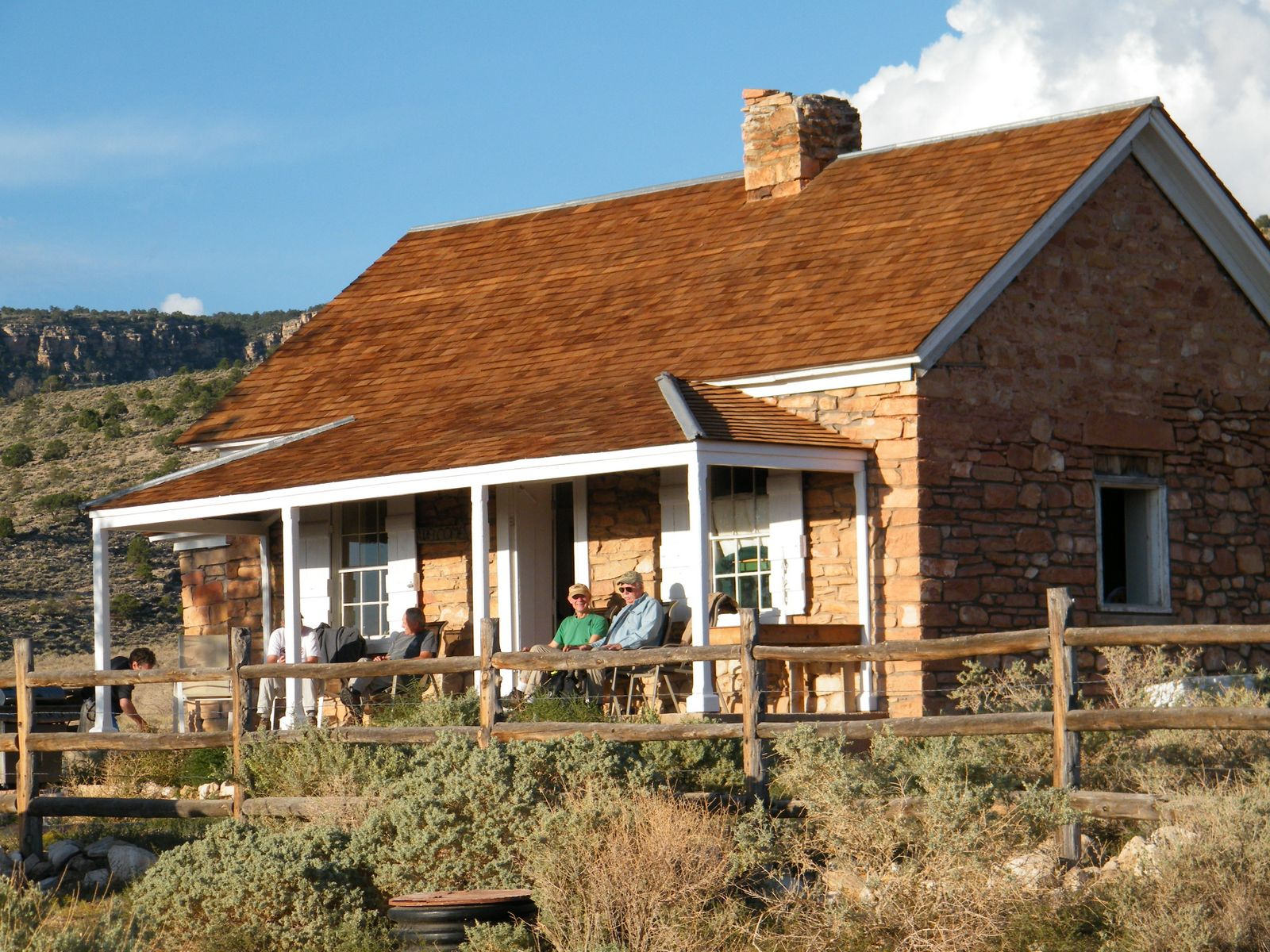 Kane Ranch Cabin on the North Kaibab Ranger District. Please give credit to: U.S. Forest Service, Southwestern Region, Kaibab National Forest.